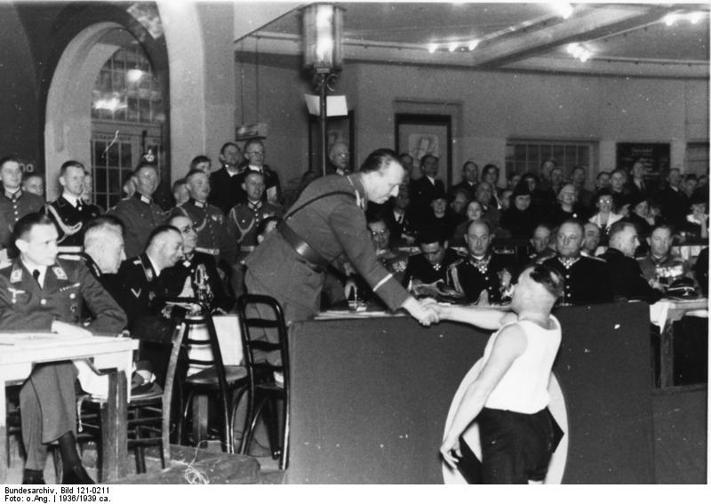 Information added by Wikimedia users.*